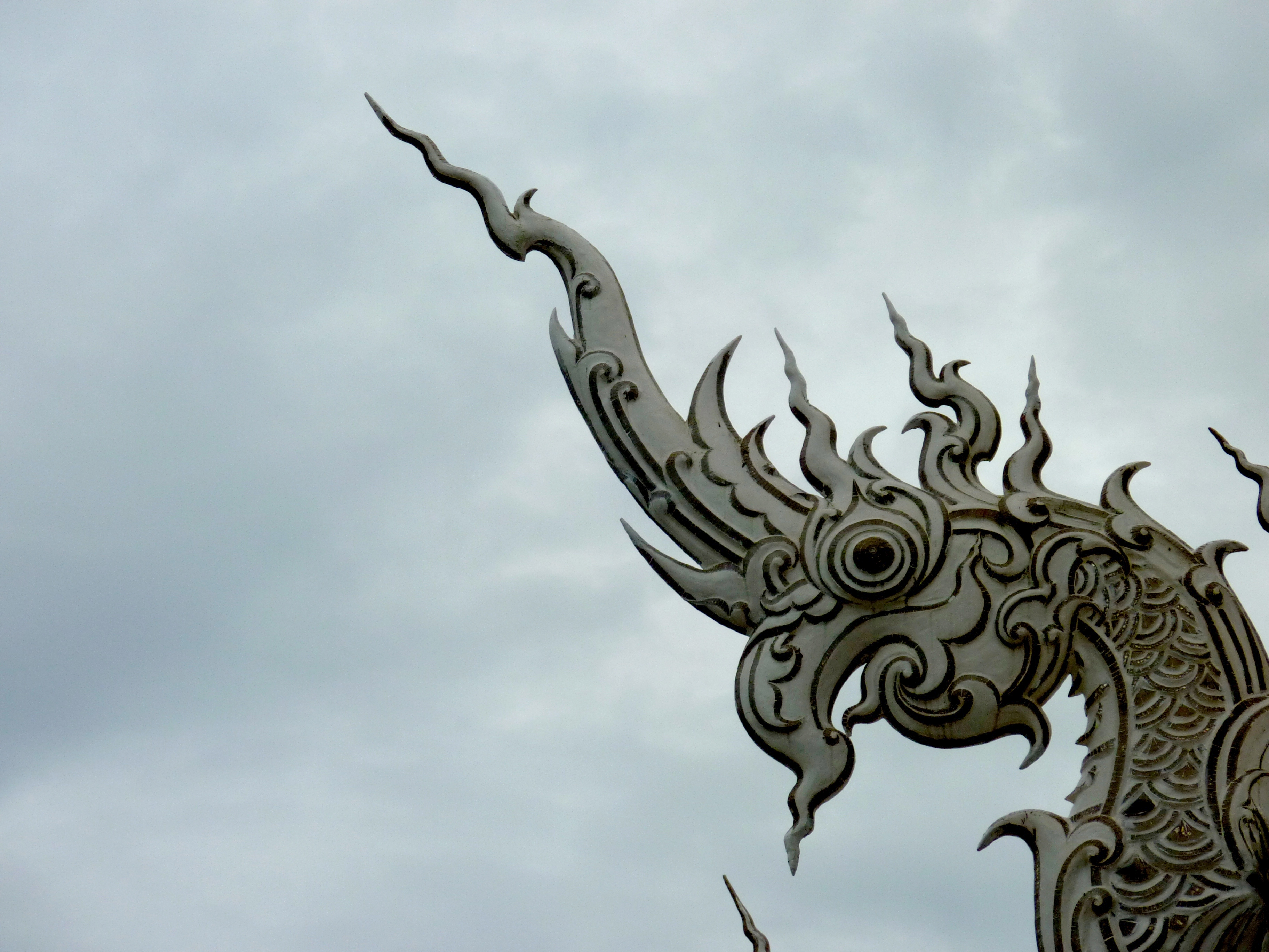 26 Dragon, White Temple, Chiang Rai